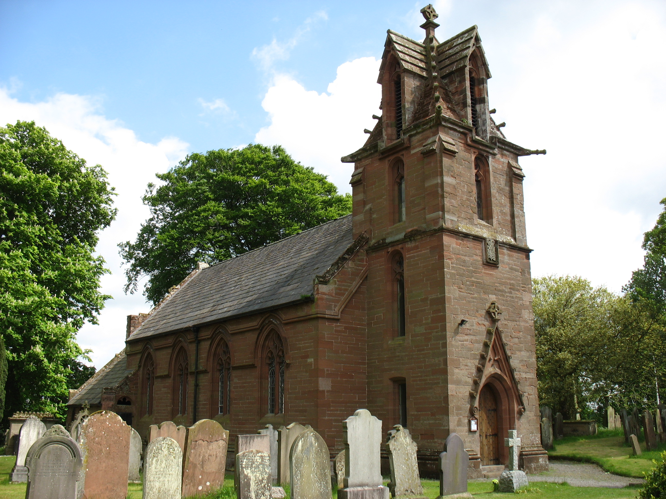 Photograph of St John's Church, Crosby-on-Eden, Cumbria, England